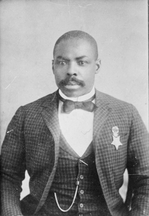 Isaiah Mays, Medal of Honor recipient. This photograph was part of the material prepared by W.E.B. Du Bois for the Negro Exhibit of the American Section at the Paris Exposition Universelle in 1900 to show the economic and social progress of African Americans since emancipation.